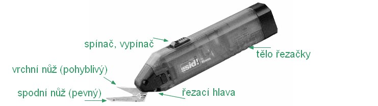 Hand usage vibratory cutting machine for textile - subscribe